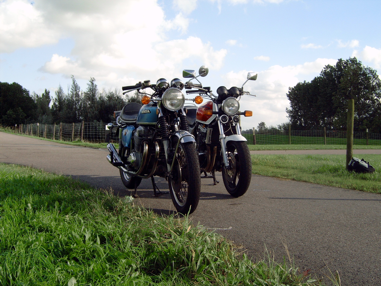 2 brothers 4 in line lineup Honda CB1000 1993 and Honda CB750K2 1972